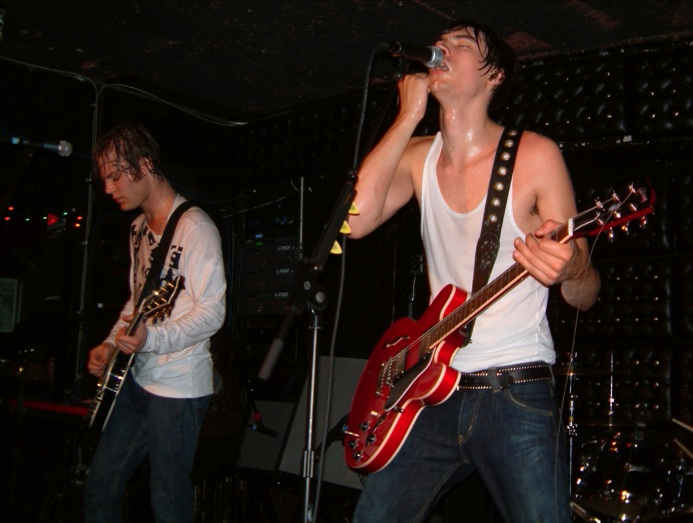 Boy, was it HOT in there!